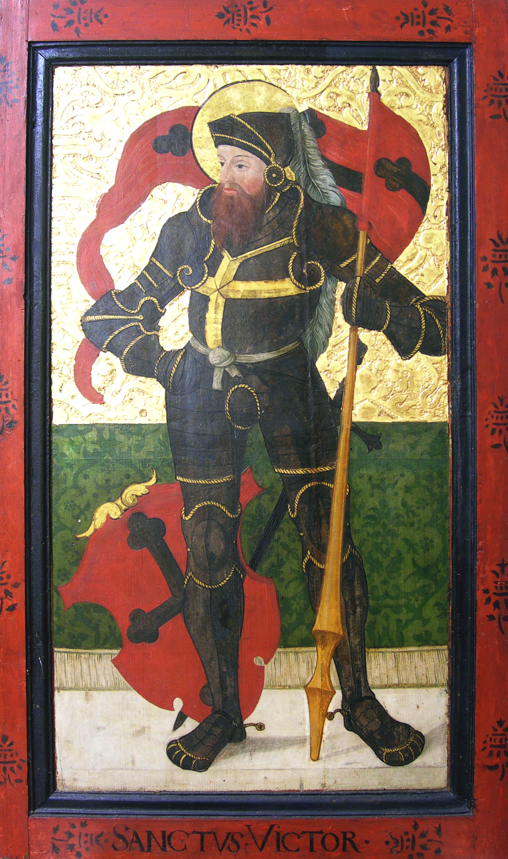 Saint Victor from Solothurn, panel painting.